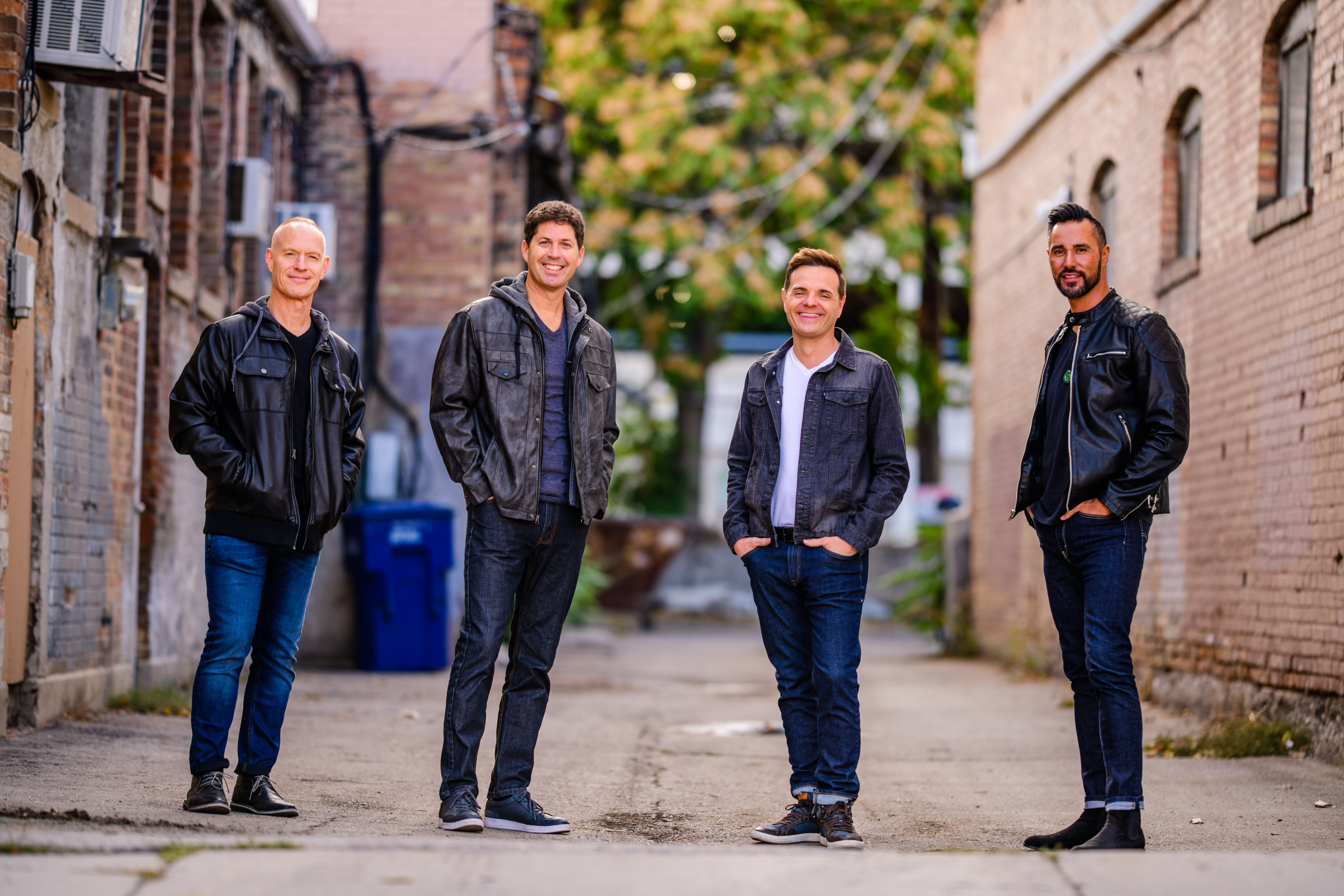 Photo of The Piano Guys by Scott Jarvie